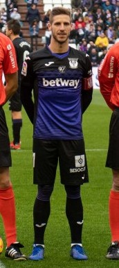 Real Valladolid - C. D. Leganés, 14th fixture of the 2018-19 La Liga, December 1, 2018.